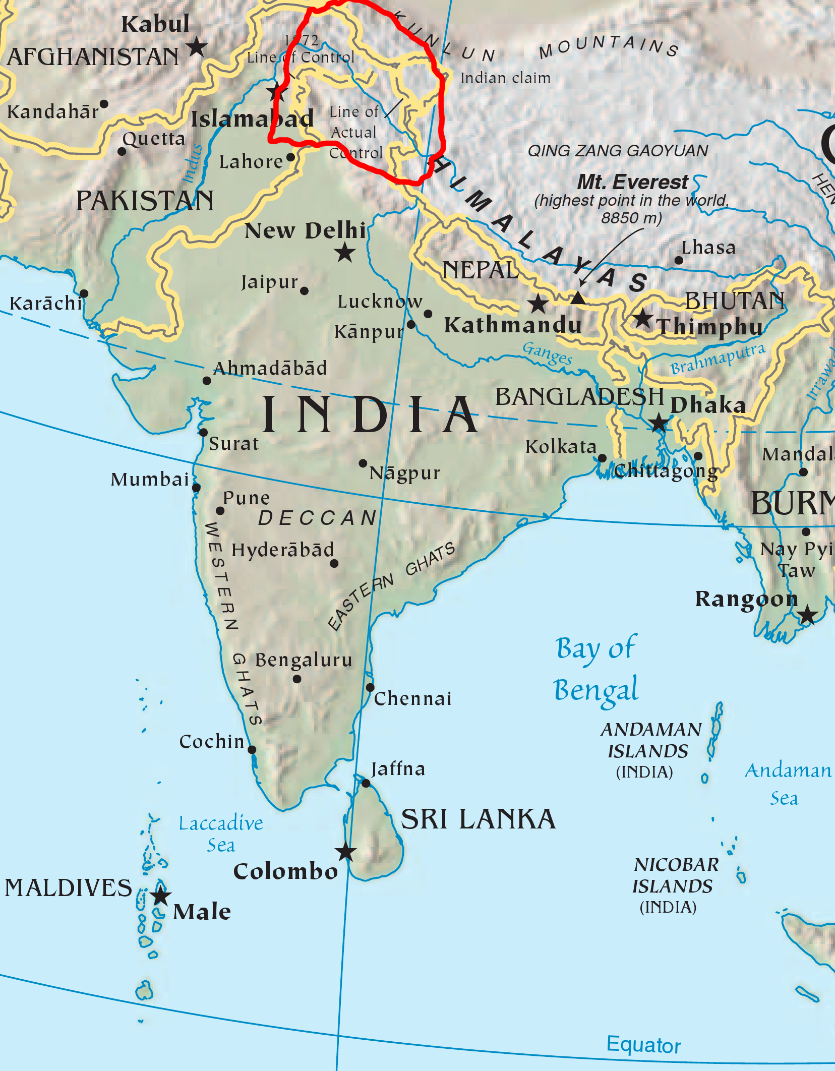 Approximate location of Dogri–Kangri (Western Pahari) region within Indian subcontinent. A further reference for extent in Pakistan: The Pahari (map). Retrieved on 1 October 2016. This file was derived from: Western Pahari.jpg Indian subcontinent CIA.png